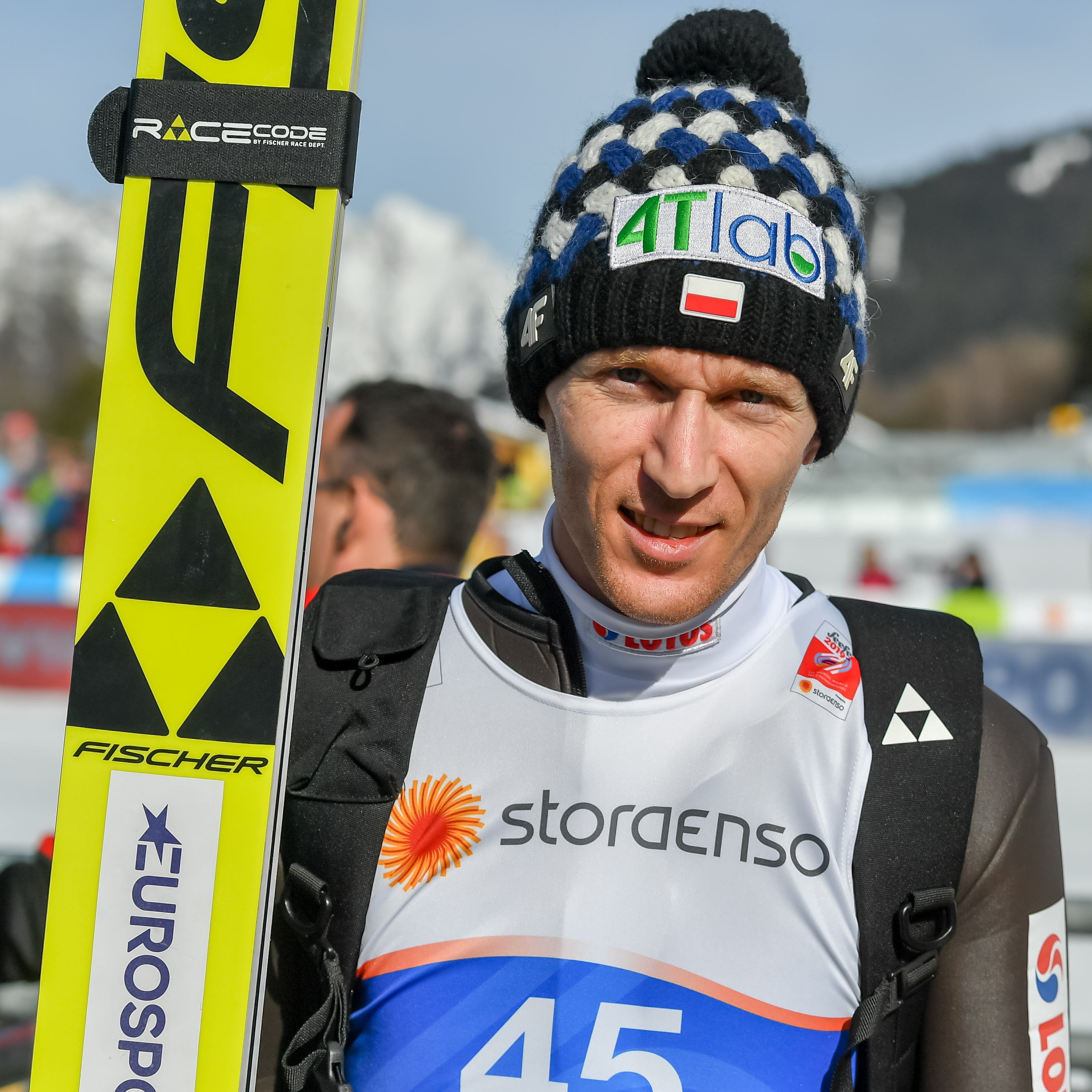 Seefeld, February 26, 2019: FIS Nordic World Ski Championships, Ski Jumping Training Men.